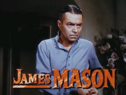 James Mason in The Prisoner of Zenda, by Richard Thorpe (1952)